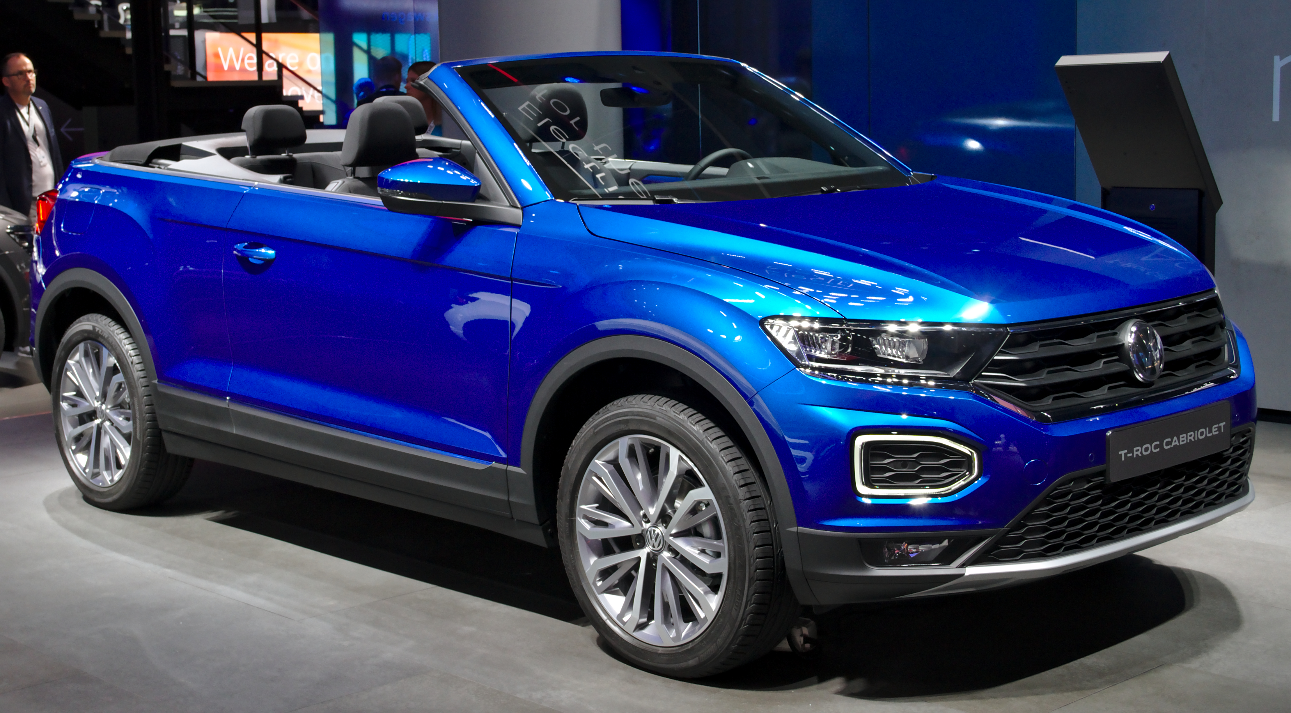 Volkswagen_T-Roc_Cabriolet at IAA 2019